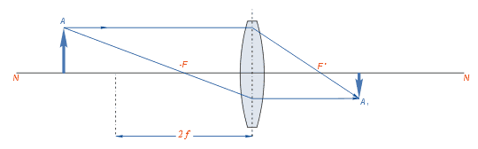 Object: Description: Author: Panther, uploaded here by Maksim Created: 12 Feb 2005 Source: Drawn by Panther using Corel Draw!